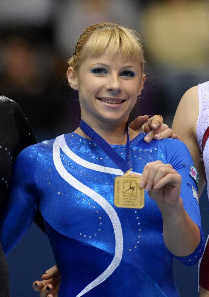 Valeria Maksyuta, an Israeli Olympic gymanst